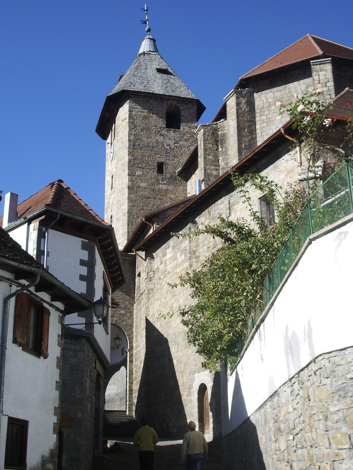 Saint John the Evangelist church (Otsagabia, Navarre)